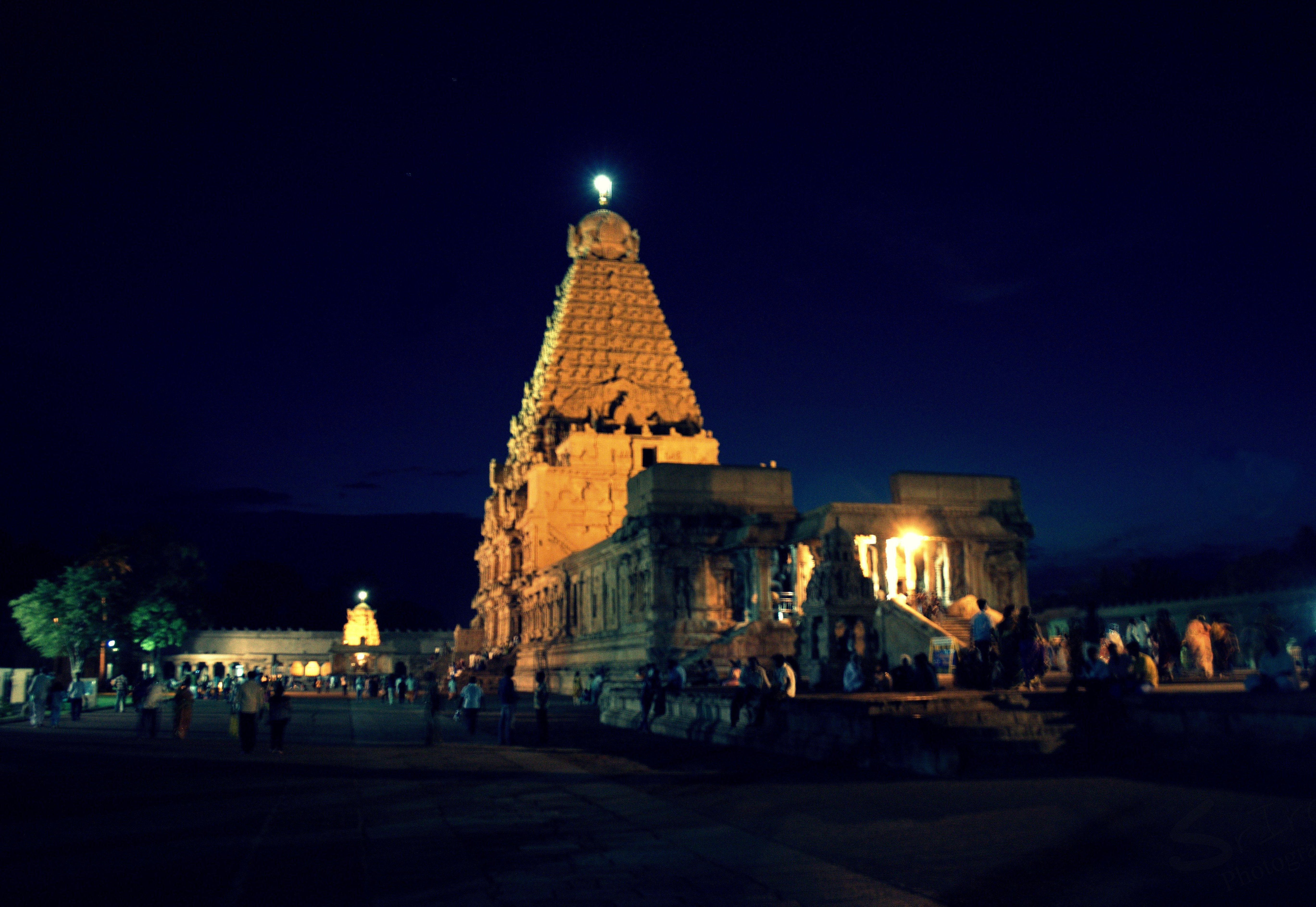 Brahadeshwara Temple commonly known as Big Temple, Thanjavur